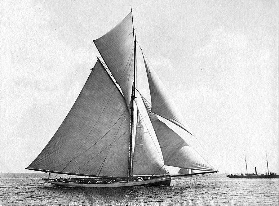 Mayflower in the late 1880s.